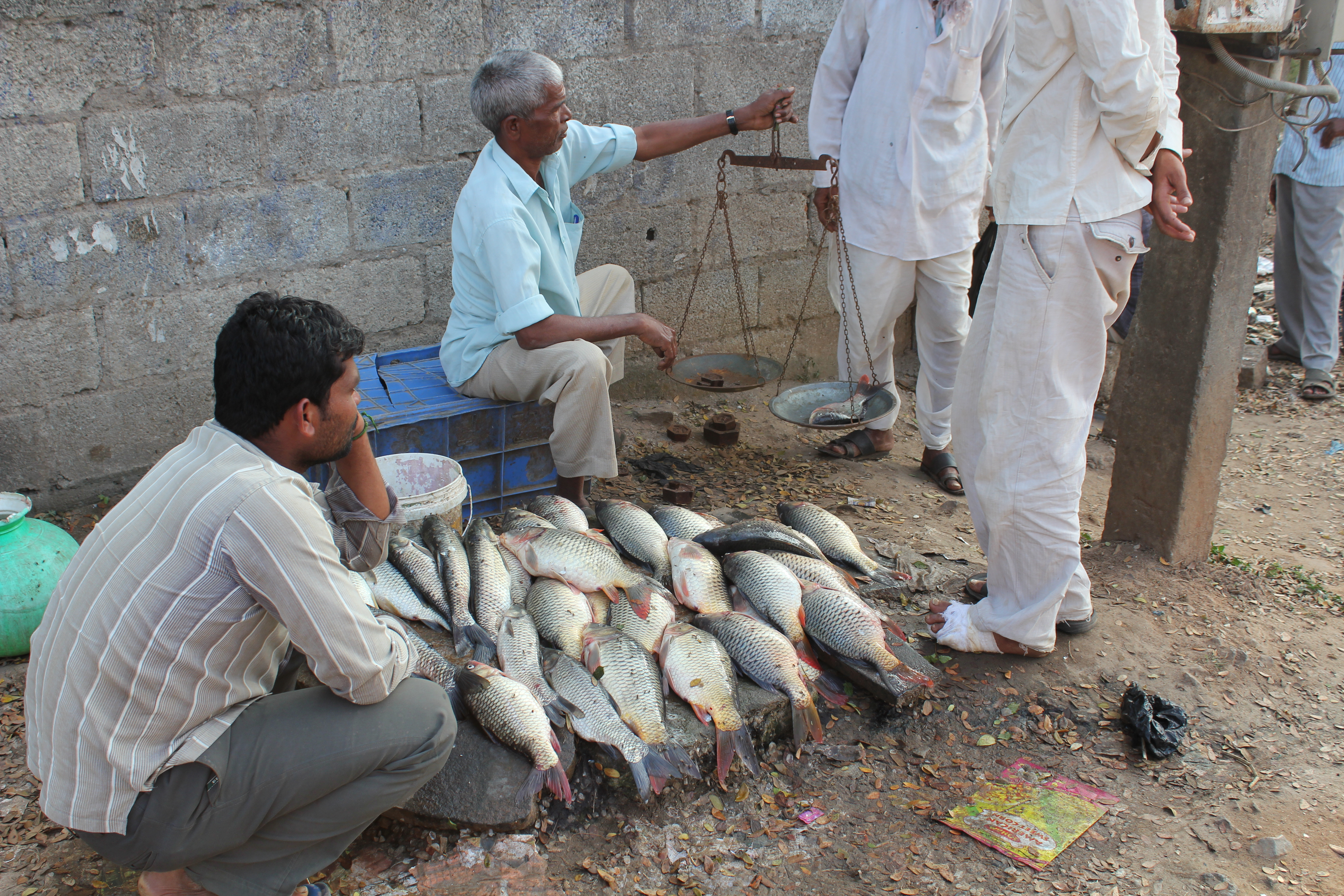 Hassan, weighing fish Hassan is a city in the Indian state of Karnataka and was founded in the 11th century, during the Hoysala dynasty, by Channa Krishnappa Naik, a chieftain (palegar). The city is named after the Goddess "Hassanamba", the city's goddess and presiding deity. Some consider it the temple-architectural capital of Karnataka. (source